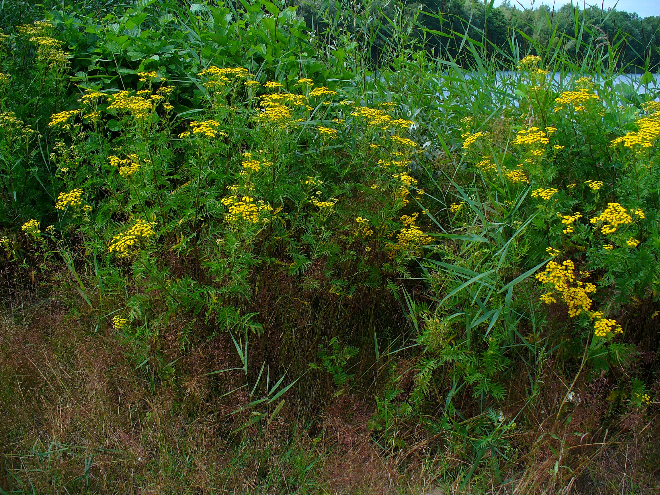 Tanacetum vulgare, Asteraceae, Common Tansy, Bitter Buttons, Cow Bitter, Mugwort, Golden Buttons, habitus. Mintraching, Bavaria, Germany.